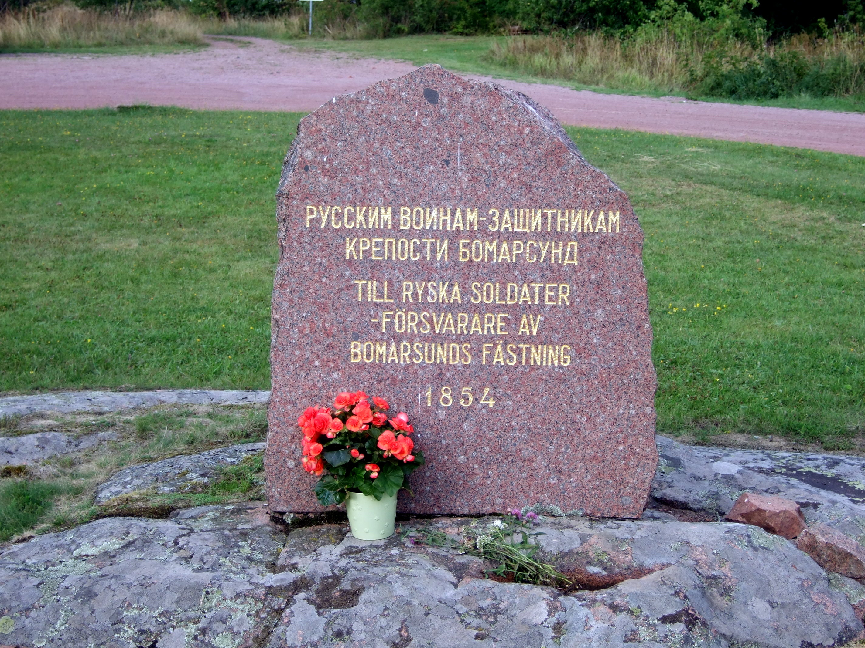 Memorial conmemorating fallen Russian soldiers in Bomarsund, Åland